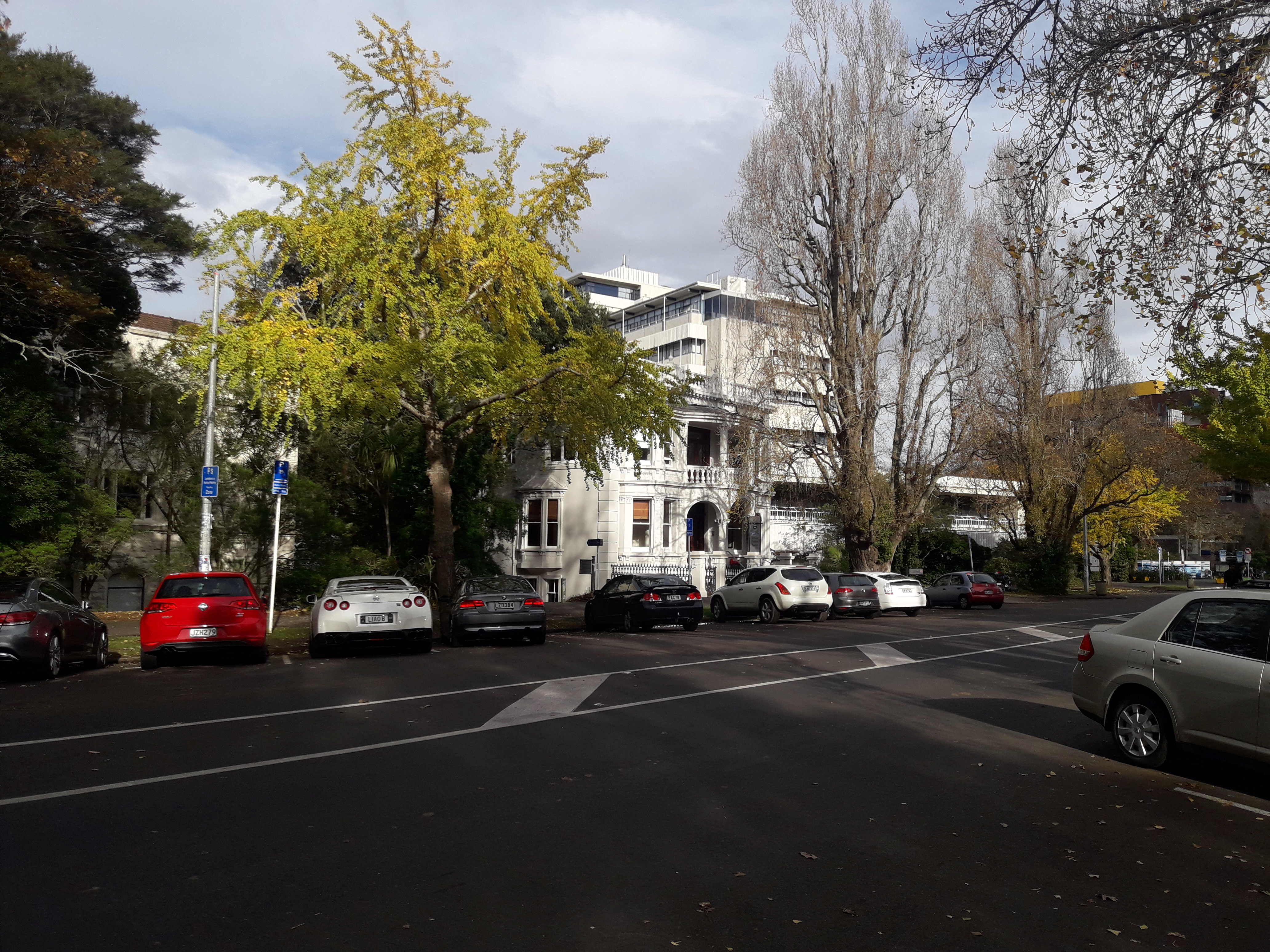 Alfred Nathan House (Building 103) of the University of Auckland, which currently houses the School of Graduate Studies and AskAuckland Central